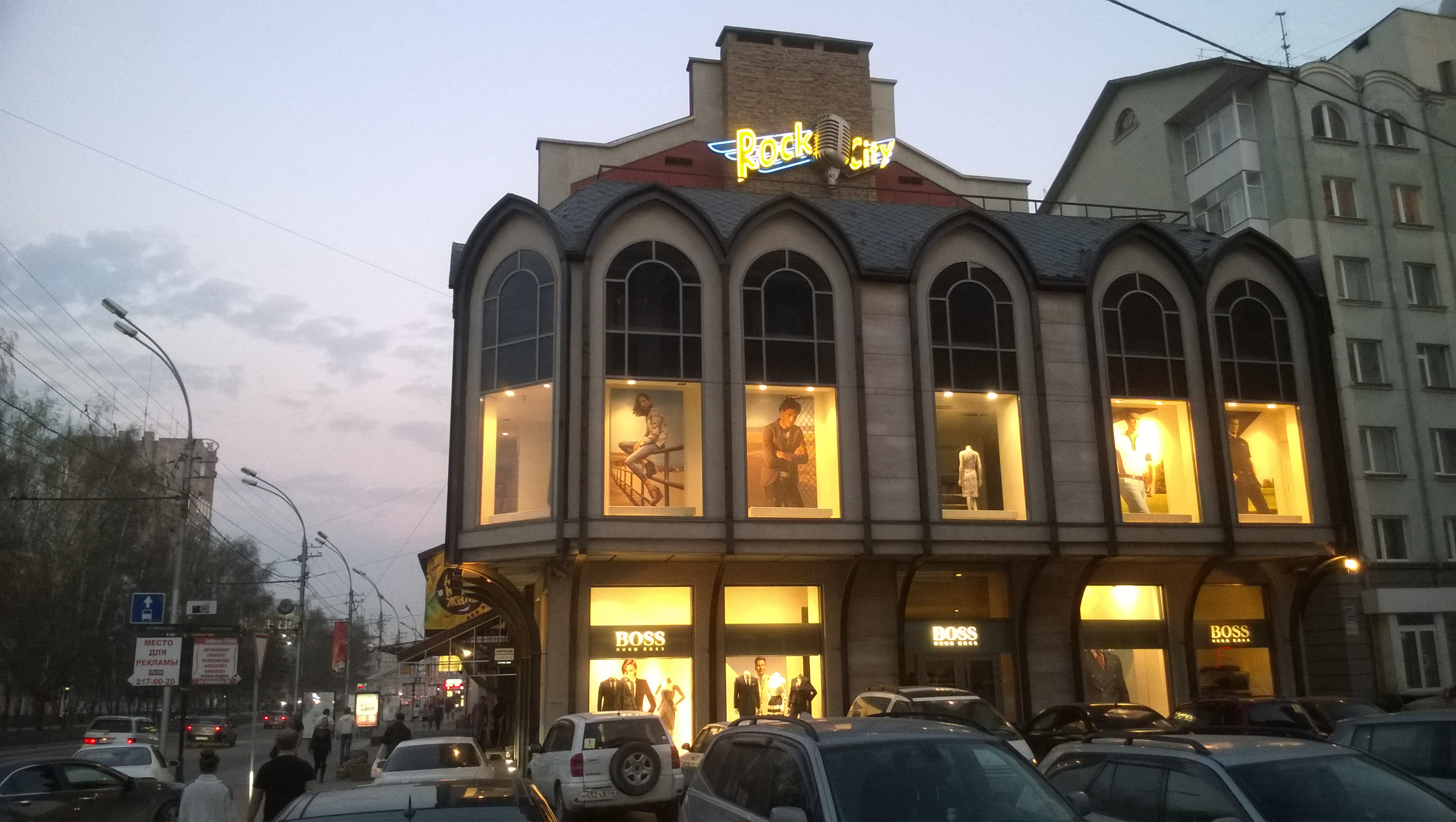 Rock City is a night club in Novosibirsk.